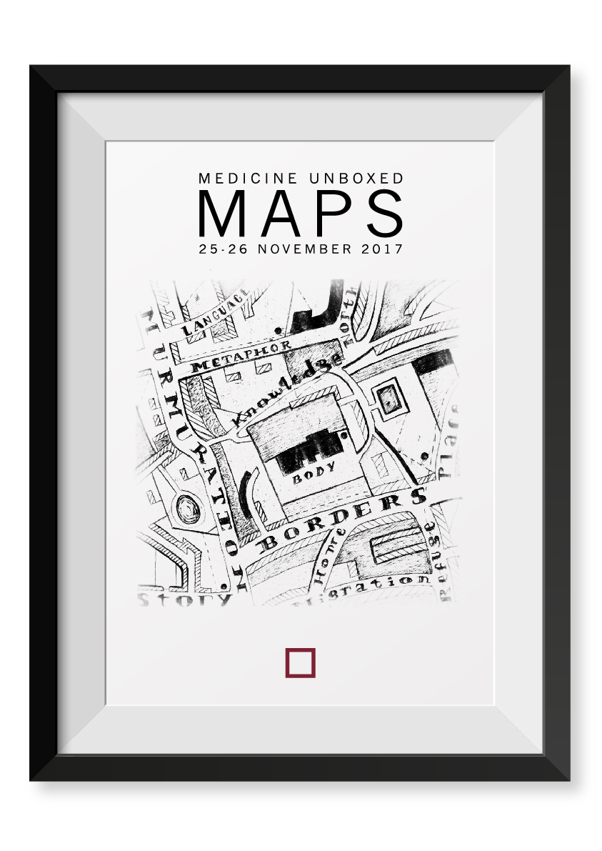 Post image for the Medicine Unboxed 2017 Maps event.